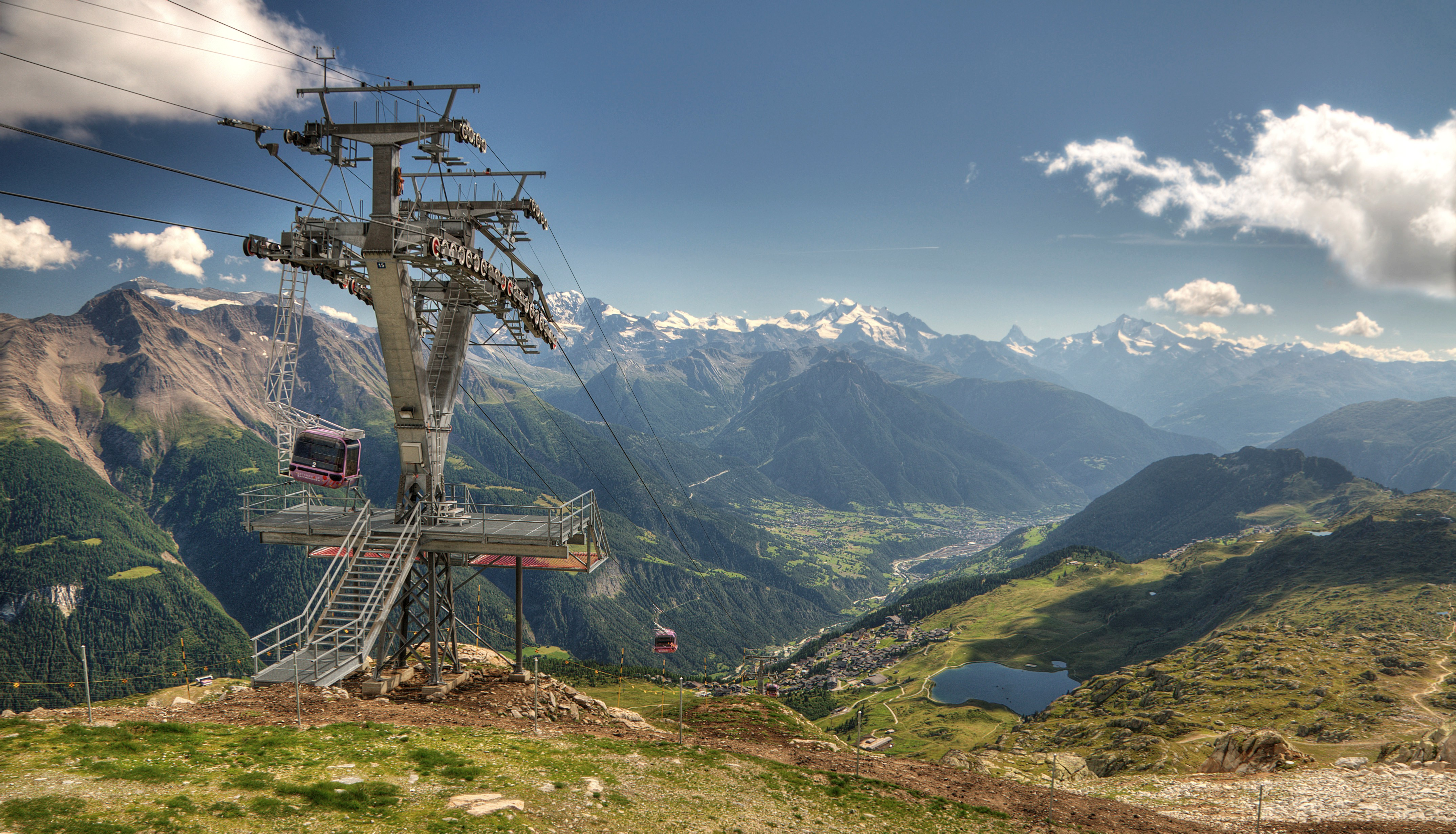 Bettmerhorn aerial tramway from Bettmeralp, Valais